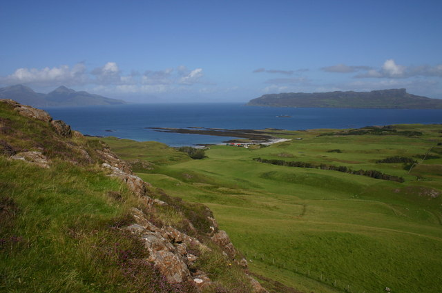 Volcanic dykes on Muck extending as Reefs. Gallanach bay is a good place to look for unusual seeds borne on the Gulf stream. The Sgurr of Eigg is in the back ground right and Rhum on the left. The Bay is a good anchorage except in Northerly gales